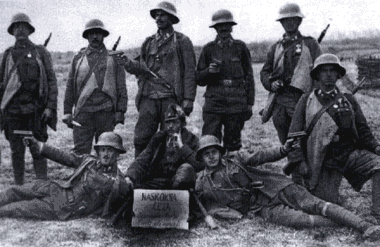 Stormtroopers of 27. regiment